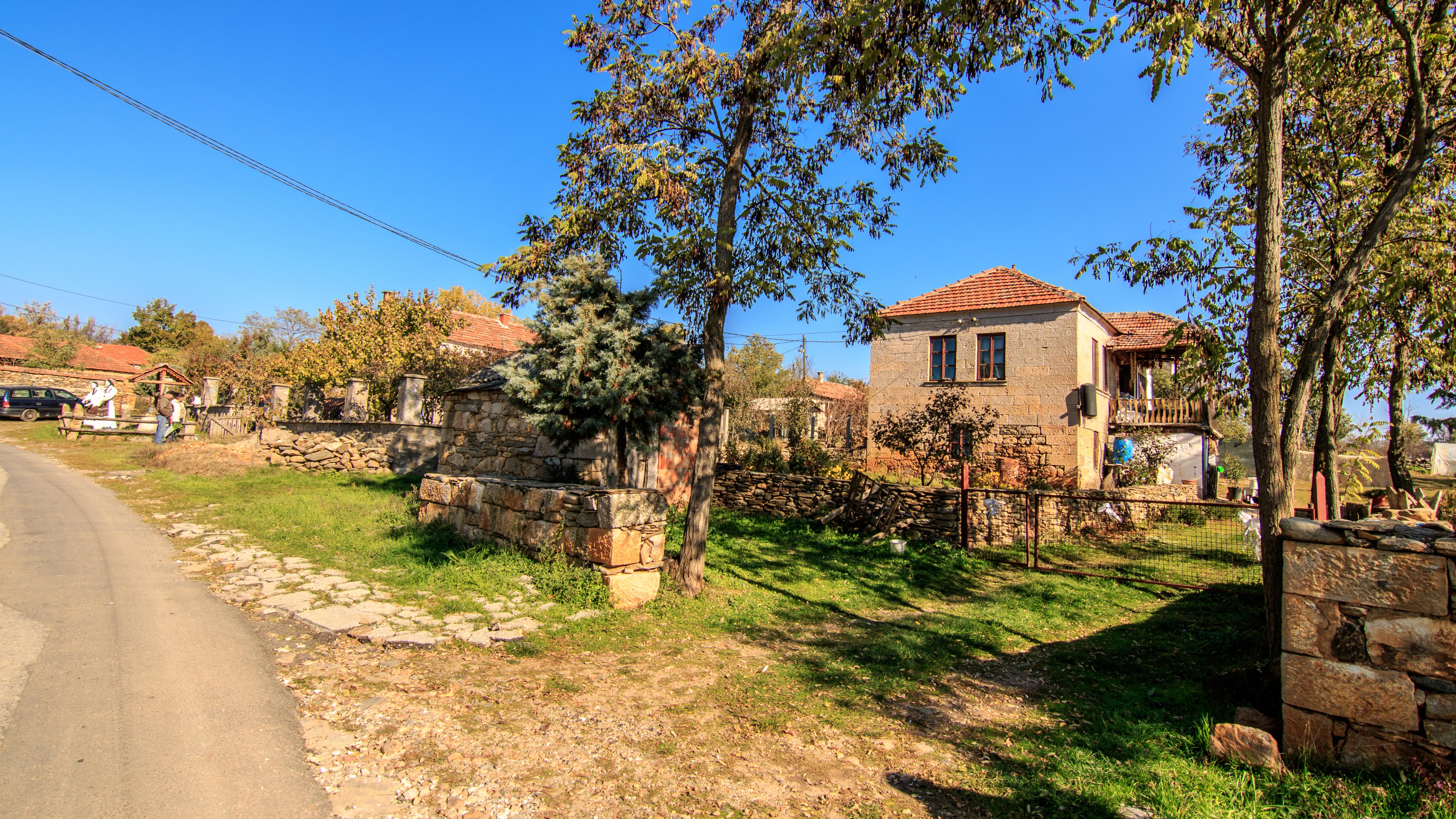 Part of the village Rankovce